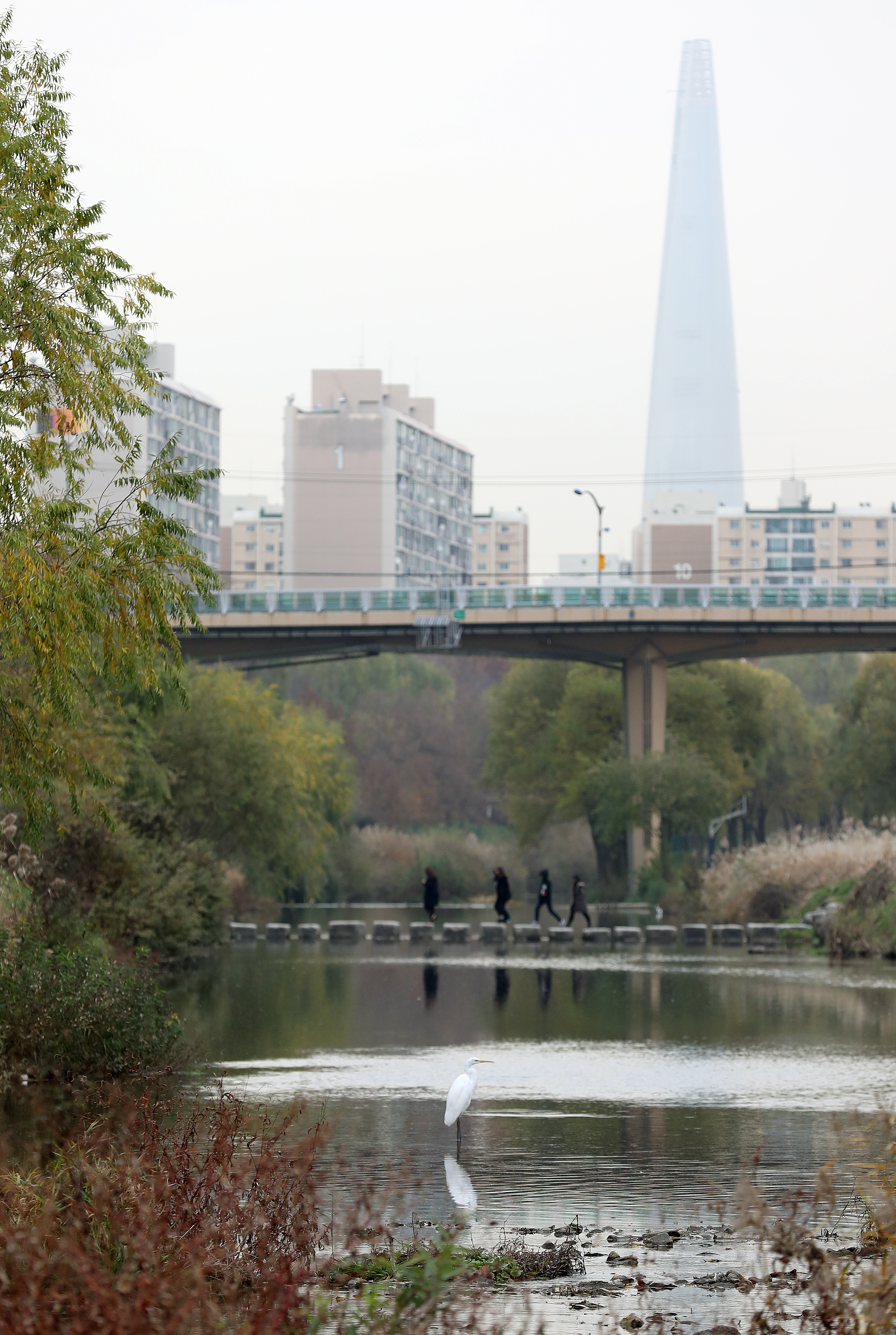 Yangjaecheon Stream People cross the Yangjaecheon Stream on stepping stones, a white heron gazing in their direction. In the far distance looms Jamsil's Lotte World Tower. November 21, 2016 Gangnam-gu, Seoul Ministry of Culture, Sports and Tourism Korean Culture and Information Service ( Official Photographer : Jeon Han